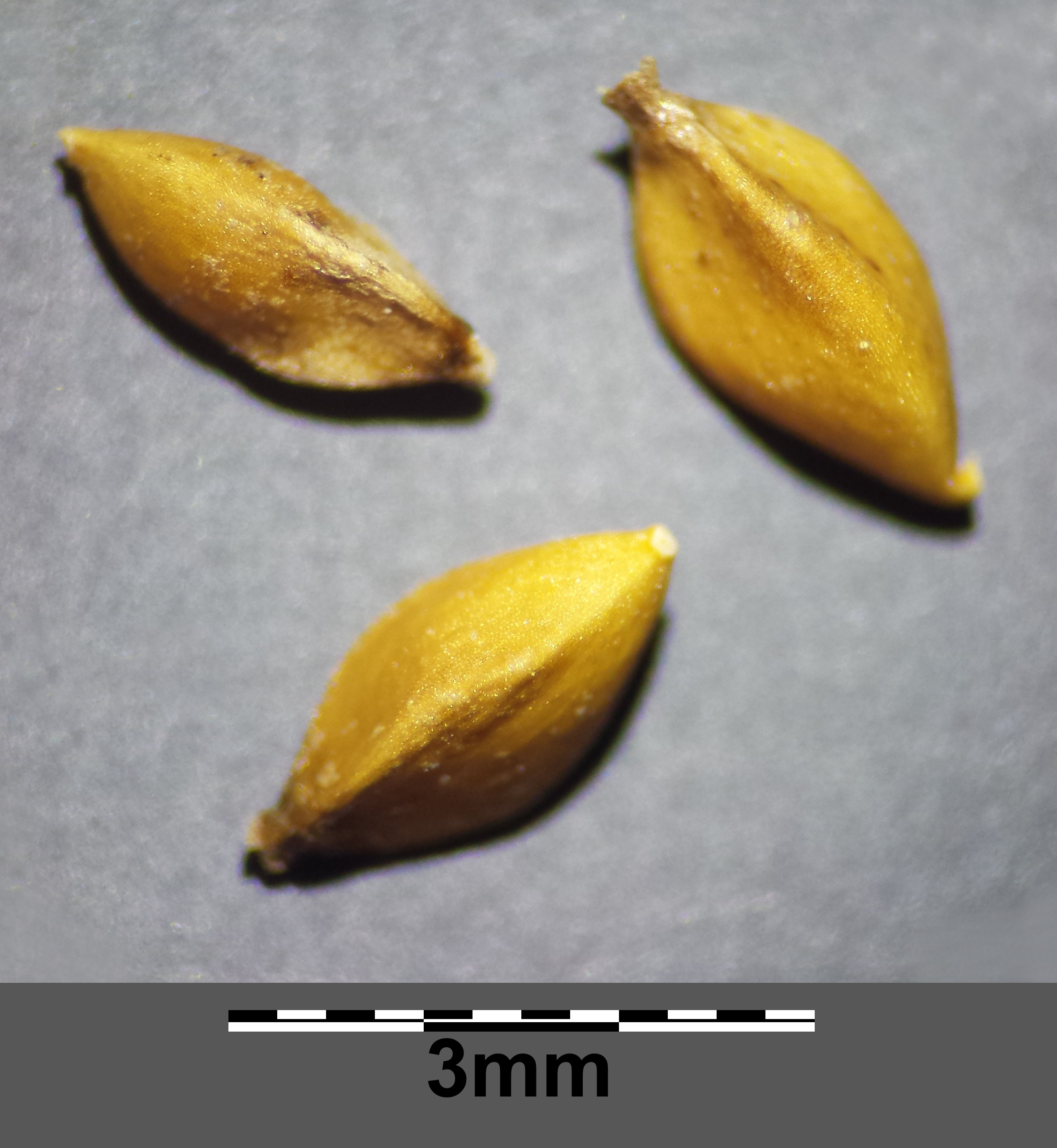 Nuts Taxonym: Carex melanostachya ss Fischer et al. EfÖLS 2008 ISBN 978-3-85474-187-9 Location: Floridsdorf rail station, Vienna-Floridsdorf - ca. 160 m a.s.l. Habitat: area below a pipe